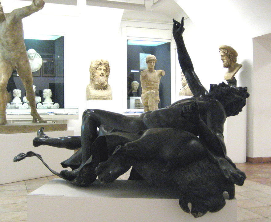 Drunk satyr. Cast from Pushkin museum. The original was found in the Villa dei Papiri in Herculaneum, and is now in the Museo Archeologico in Naples (inv. nr. 5628). Сатир охмелевший